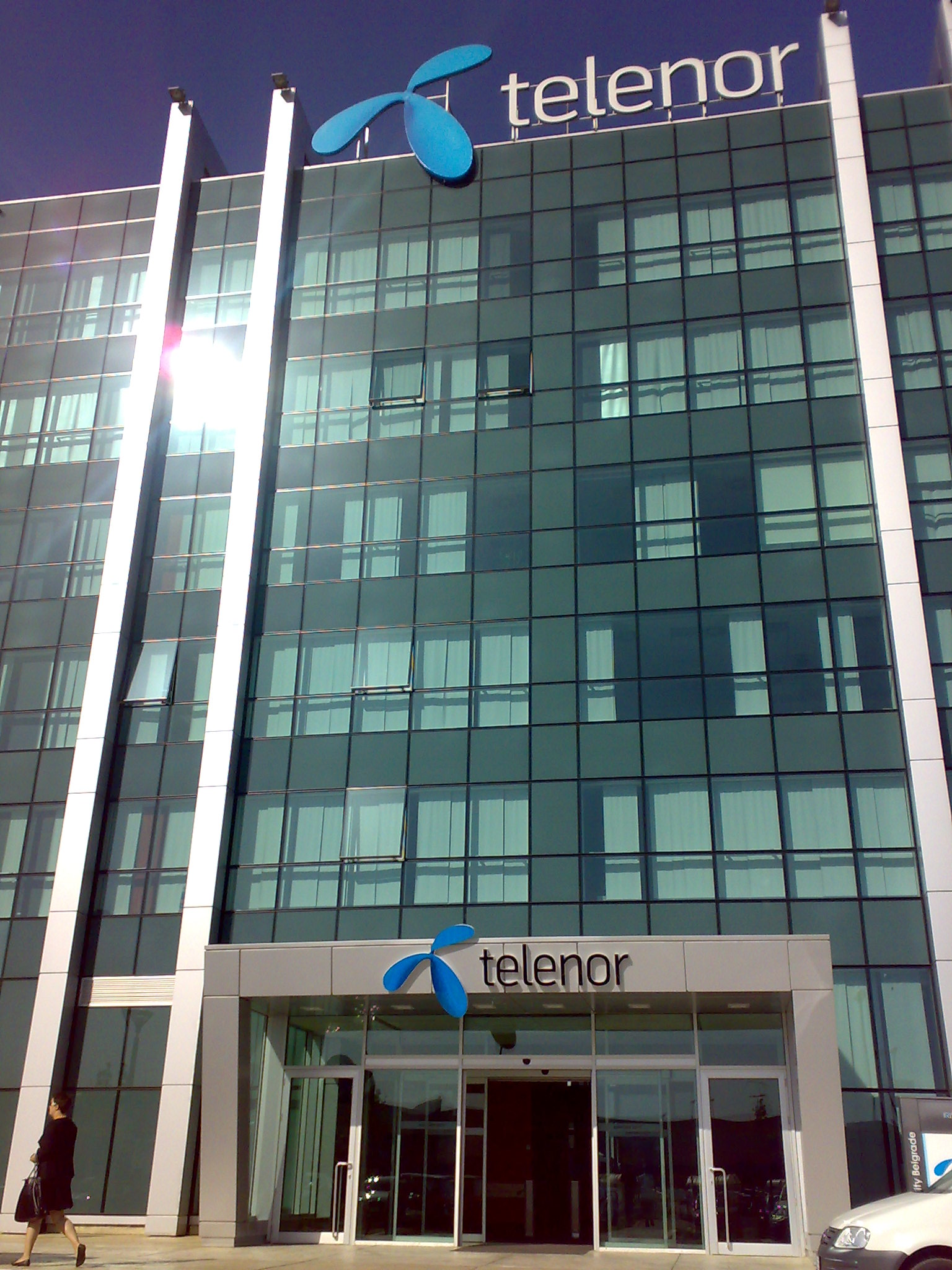 Telenor Serbia headquarter, Novy Beograd